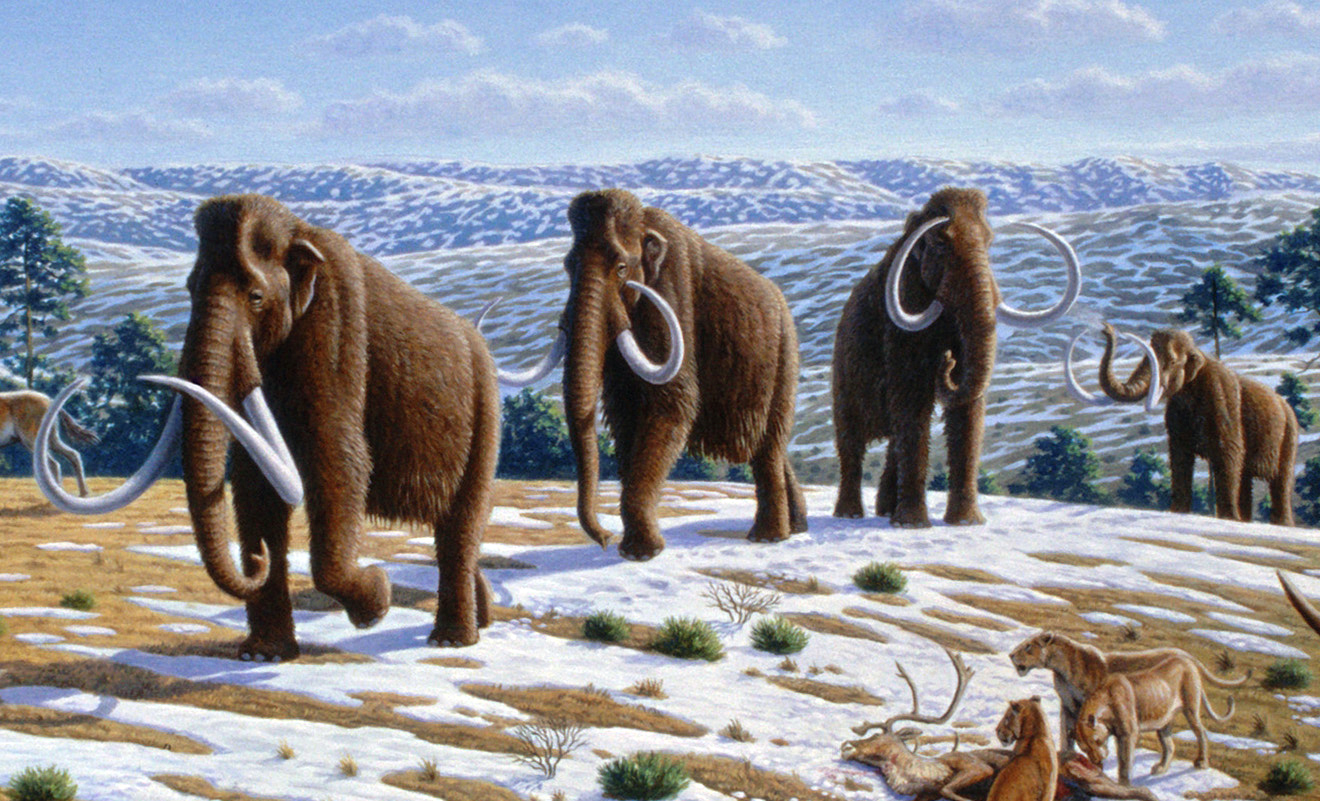 Woolly mammoths (Mammuthus primigenius) in a late Pleistocene landscape in northern Spain. (Information according to the caption of the same image in Alan Turner (2004) National Geographic Prehistoric Mammals, Washington, D.C.: National Geographic ISBN 9780792271345, ISBN 9780792269977)